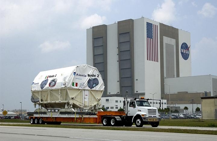 The Italian-built module, U.S. Node 2, moves past the Vehicle Assembly Building as it is transferred to the Space Station Processing Facility.